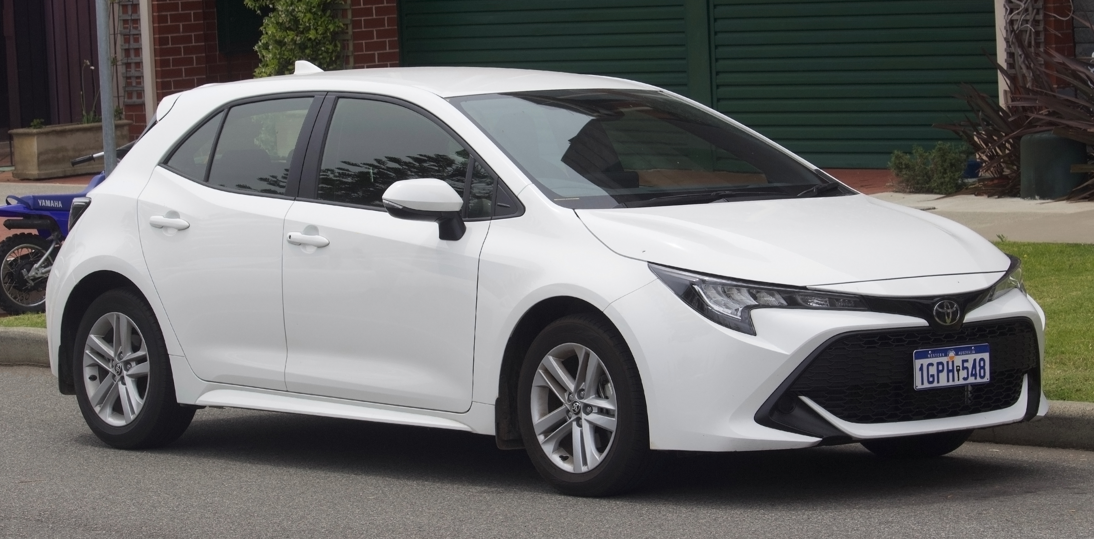 2018 Toyota Corolla (MZEA12R) Ascent Sport hatchback. Photographed in Fremantle, Western Australia, Australia.